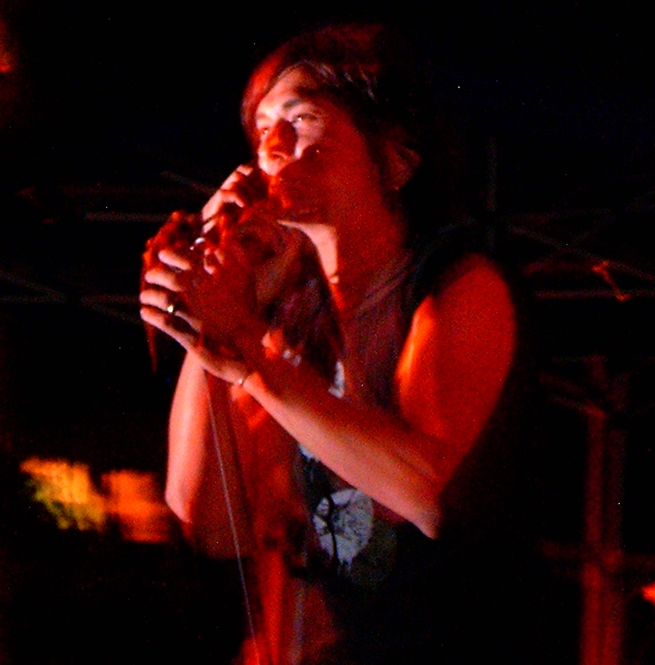 David Usher in concert in Toronto, Ontario, for Pride.